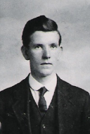 James Marley, Labour M.P.